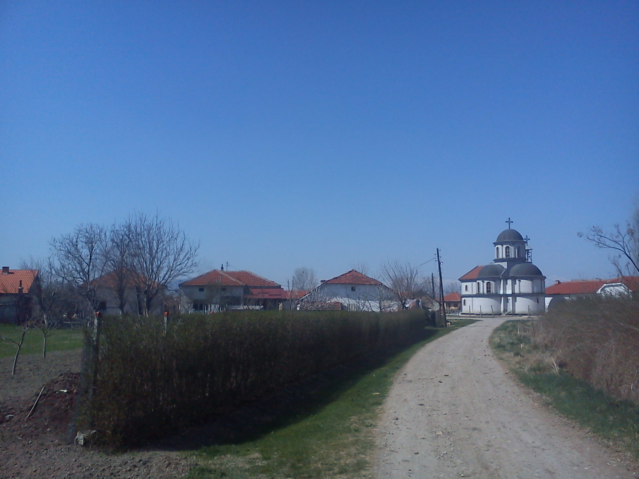 The church in Mralino